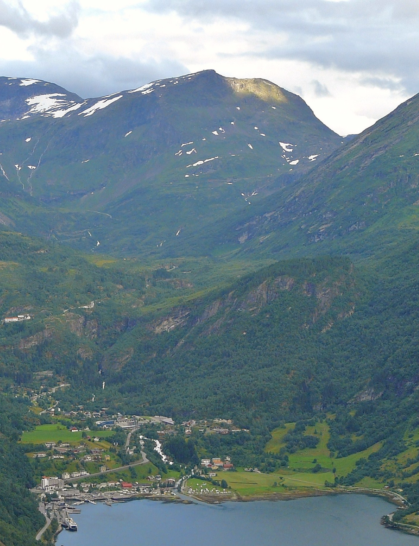 Geiranger and Geirangerfjorden below and the summit of Dalsnibba (1,476 m) above as seen from Ørnesvingen in 2008 August.